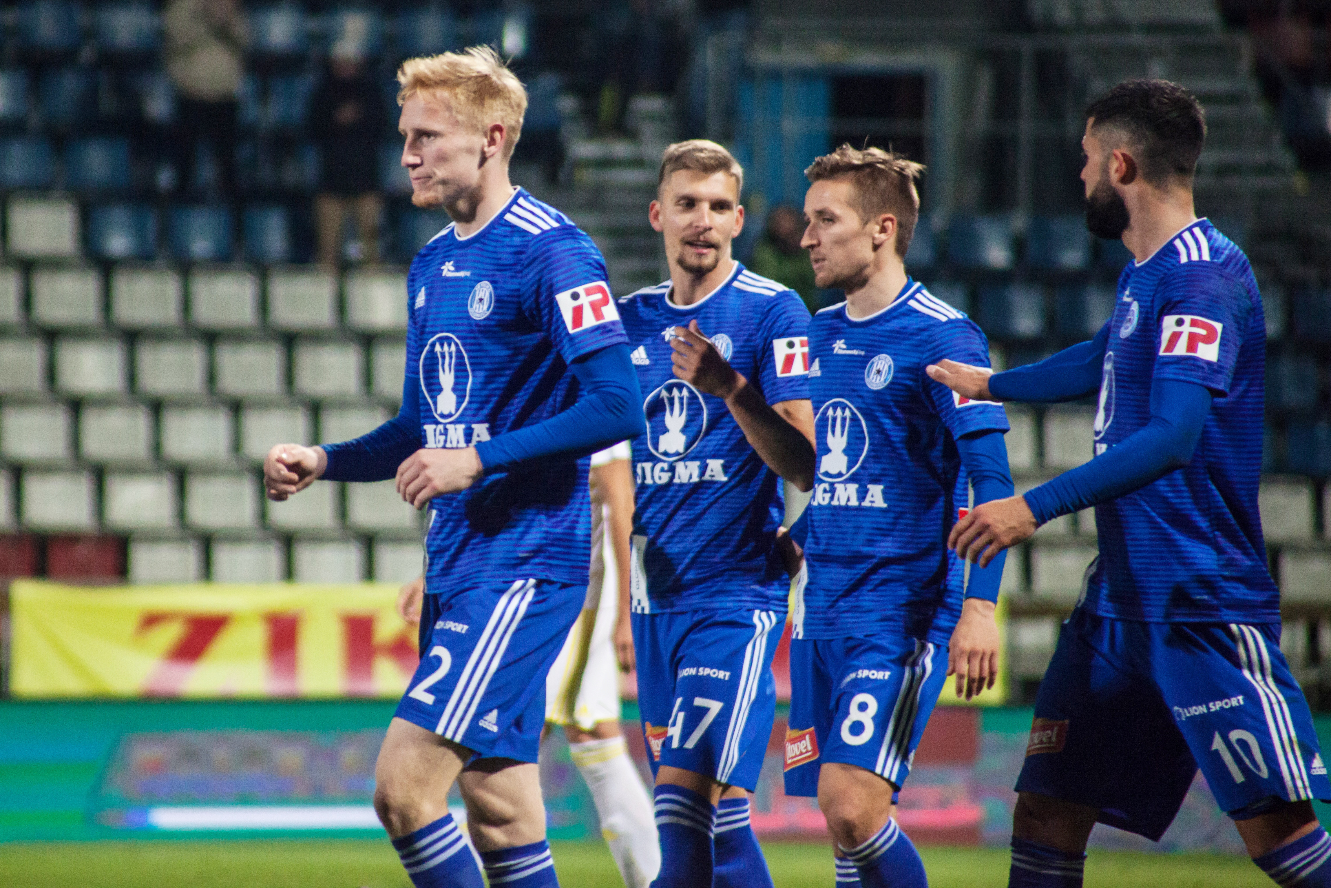 Players of SK Sigma Olomouc at Czech Cup match against FC Fastav Zlín (2:1), Ander's stadium, Olomouc, Olomoucký kraj, Czechia